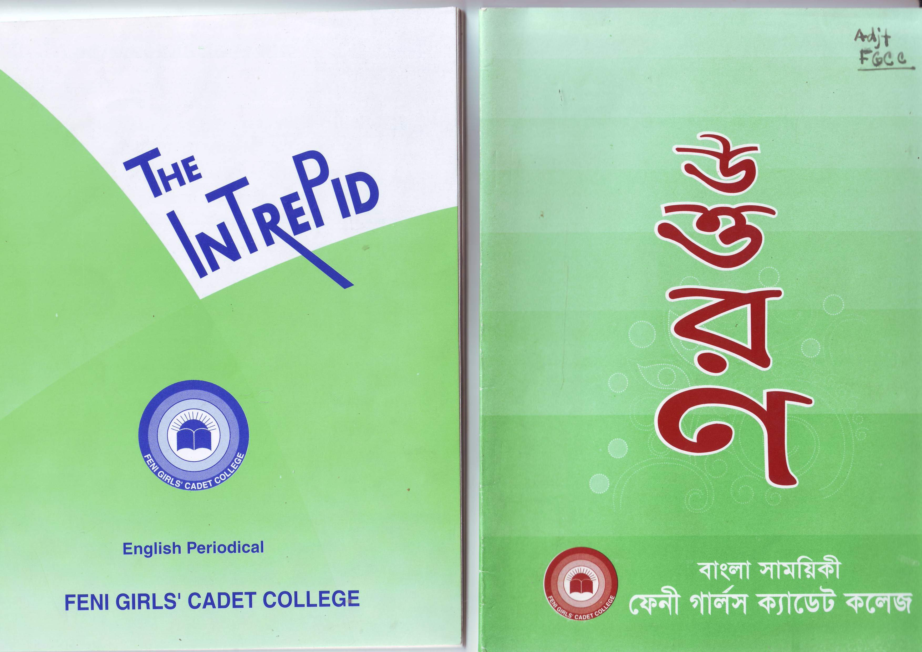 Priodical in Bangla and English